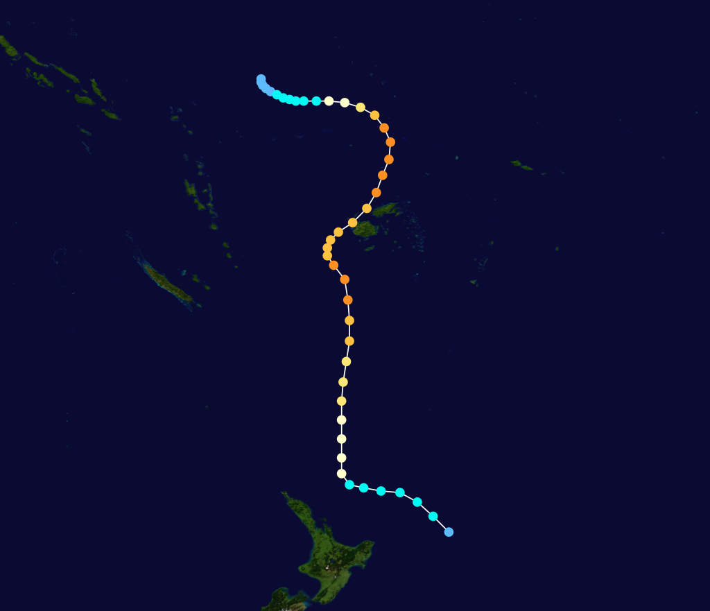 Cyclone Gavin (1997) track. Uses the color scheme from the Saffir-Simpson Hurricane Scale.